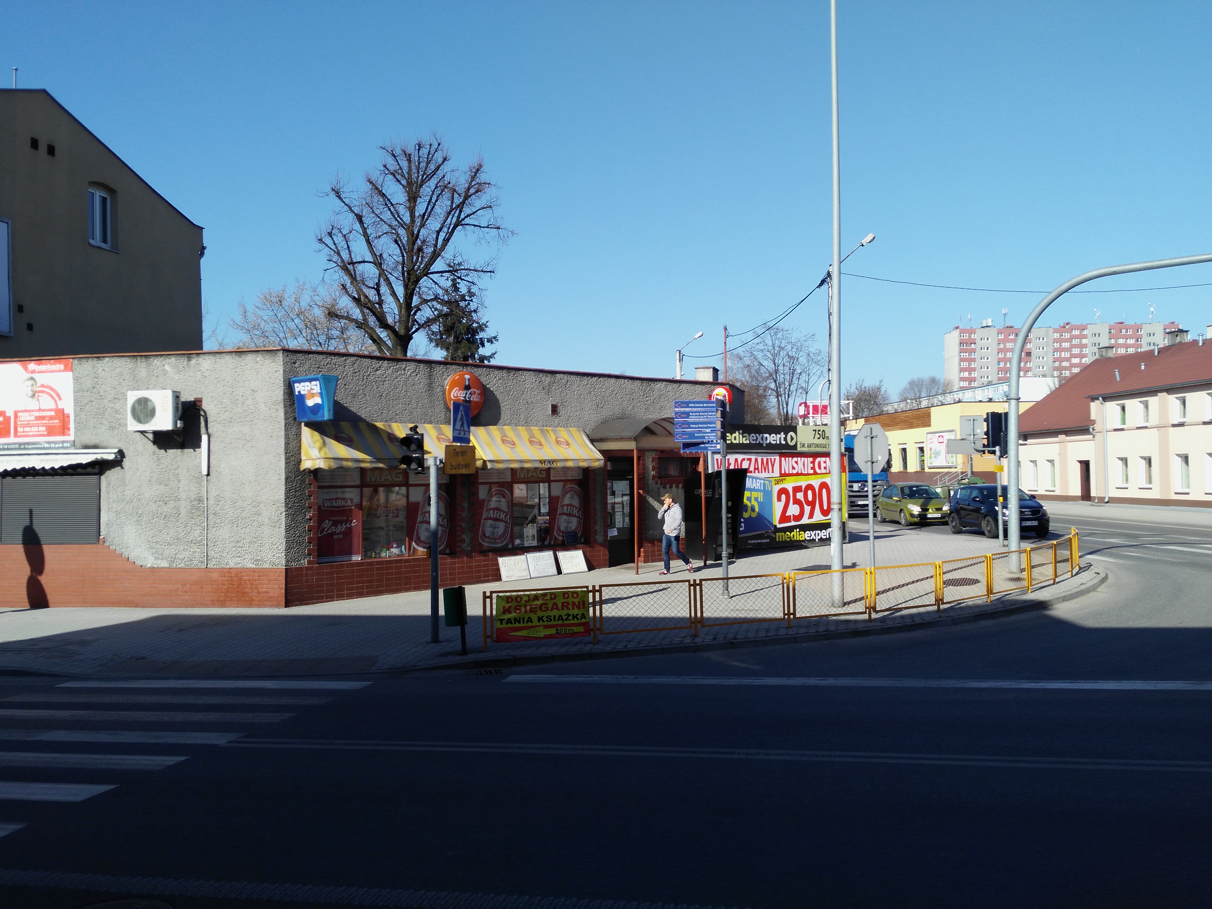 Convenience store on the corner in polish town - Tomaszów Mazowiecki, Łódź Voivodeship